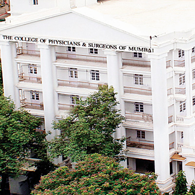 CPS Mumbai office